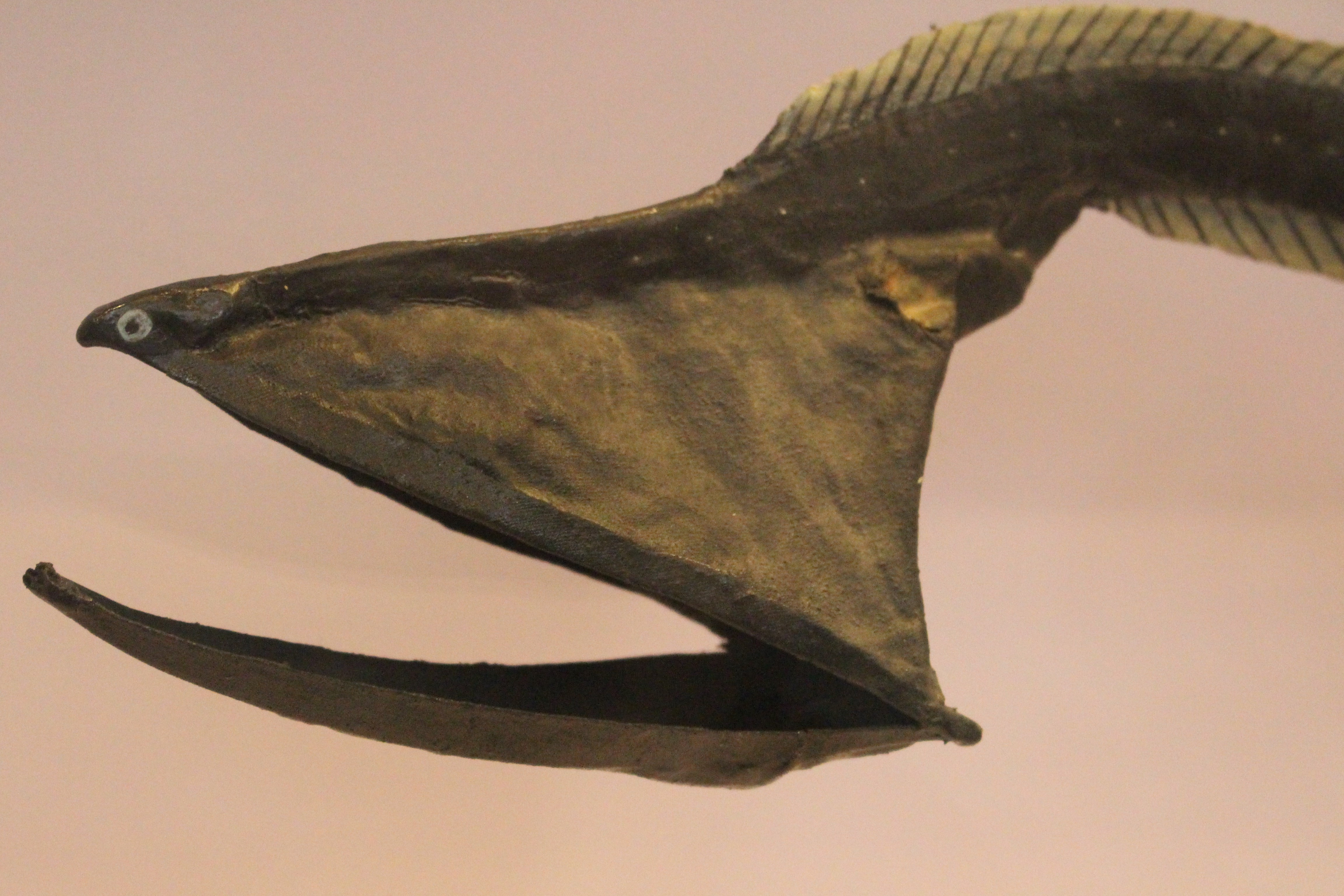 Pelican eel (Eurypharynx pelecanoides) model at the Natural History Museum in London, England.